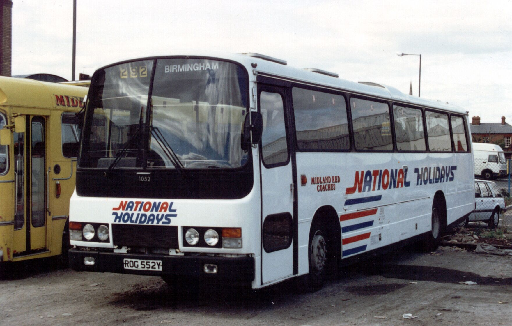 Midland Red Coaches coach 1052 (reg. ROG 552Y), a rebuilt Leyland Leopard coach - 1052 is one of 4 which were delivered new to Midland Red in 1970 with 49 seat Plaxton Panorama bodywork, being numbered 6249/251/54/5 (registered WHA 249/51/4/5H). Having been withdrawn in 1980/1, they were sent to Eastern Coach Works to be rebodied, all re-entering service in January 1983 with new sequential fleetnumbers/registations, as 1049-1052 (ROG 549Y - ROG 552Y), seeing service until 1995.